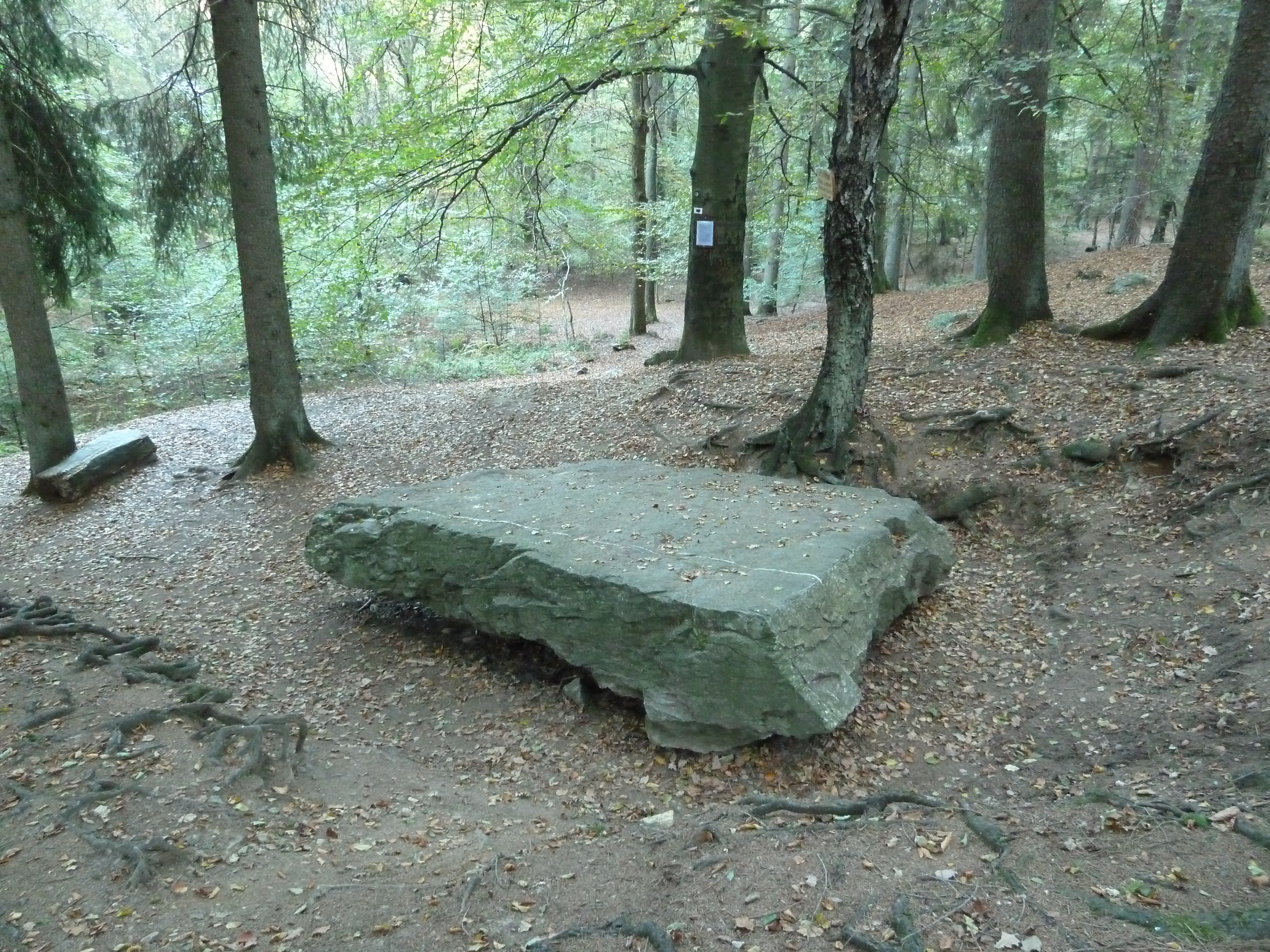 Dolmen of Solwaster, Solwaster, Liege, Belgium